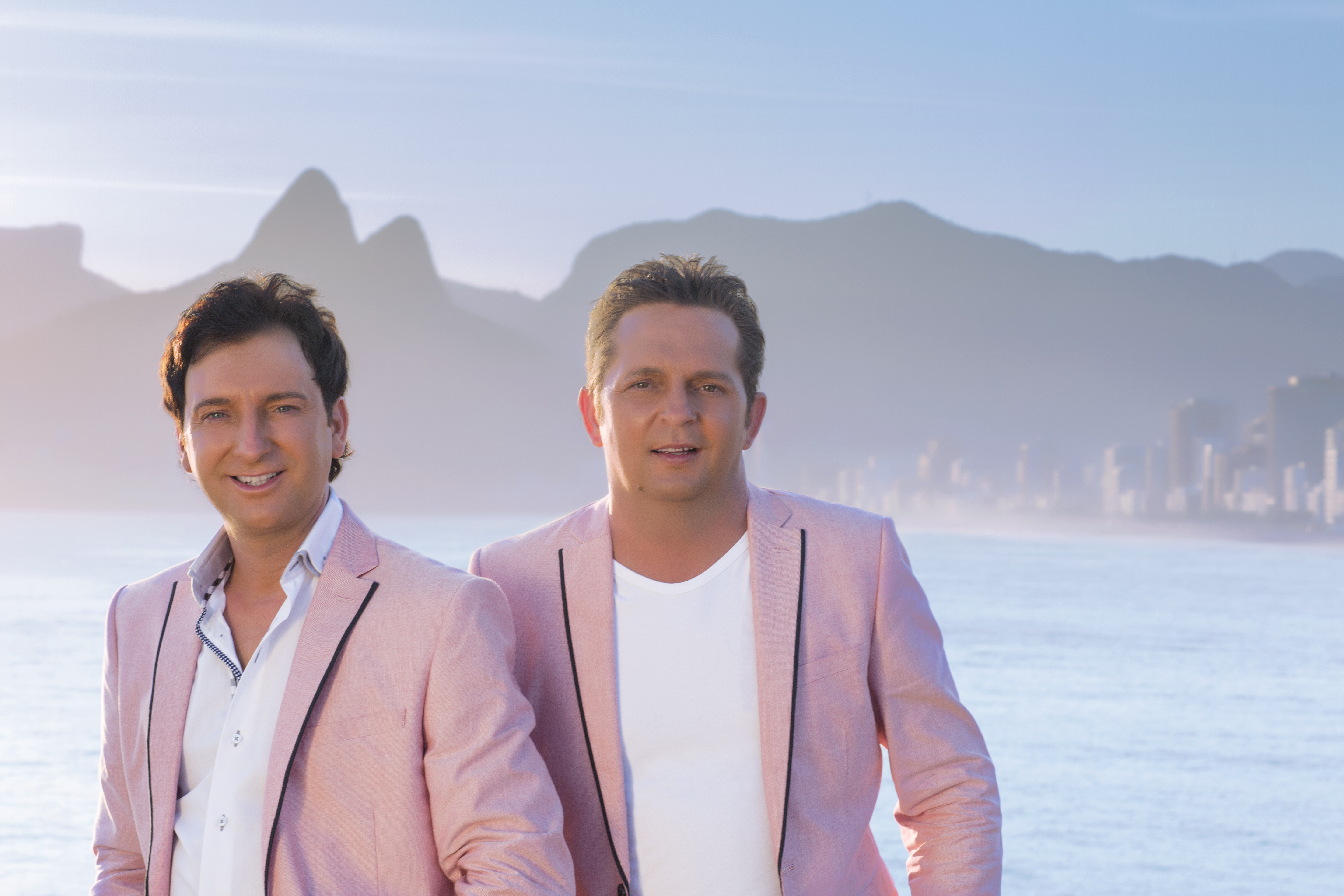 Fantasy for their new album “Eine Nacht im Paradies”.